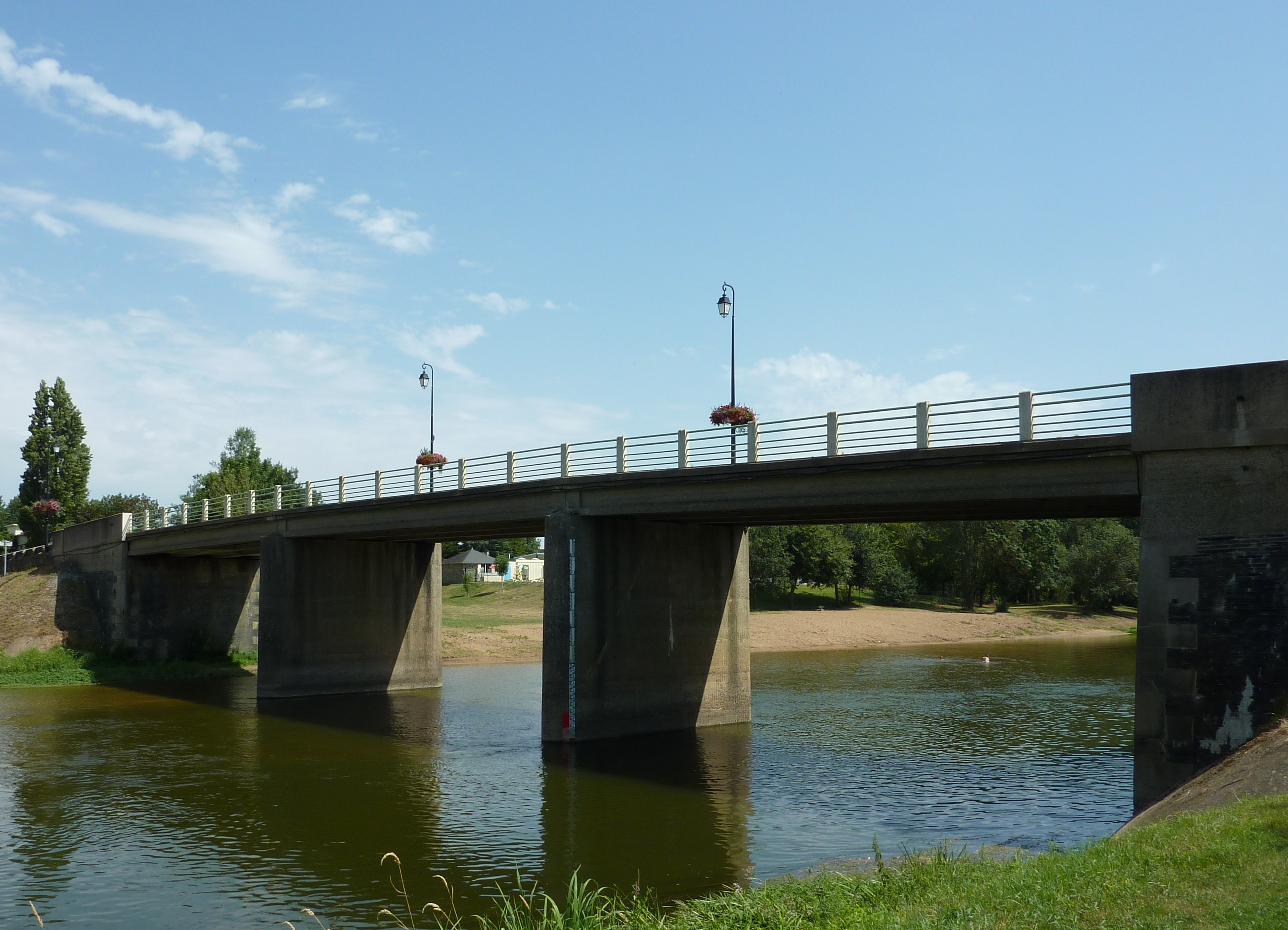 The Rochefort-sur-Loire Bridge (Maine-et-Loire)